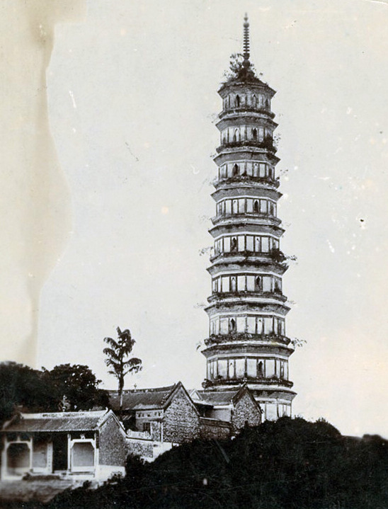 The Whampoa Pagoda in Canton, Kwangtung, China.